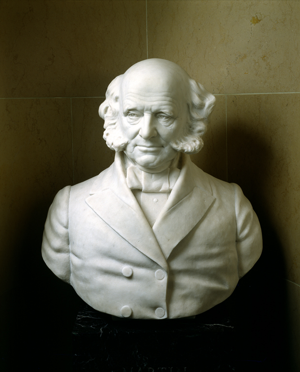 Bust of Martin Van Buren